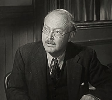 Don Beddoe in Behind Green Lights - cropped screenshot